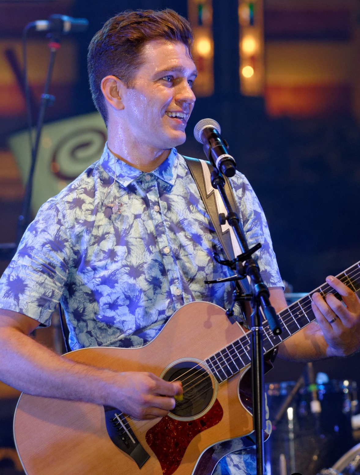 Andy Grammer performing live at The Grove L.A. shopping center in Los Angeles California on Wednesday July 30, 2014